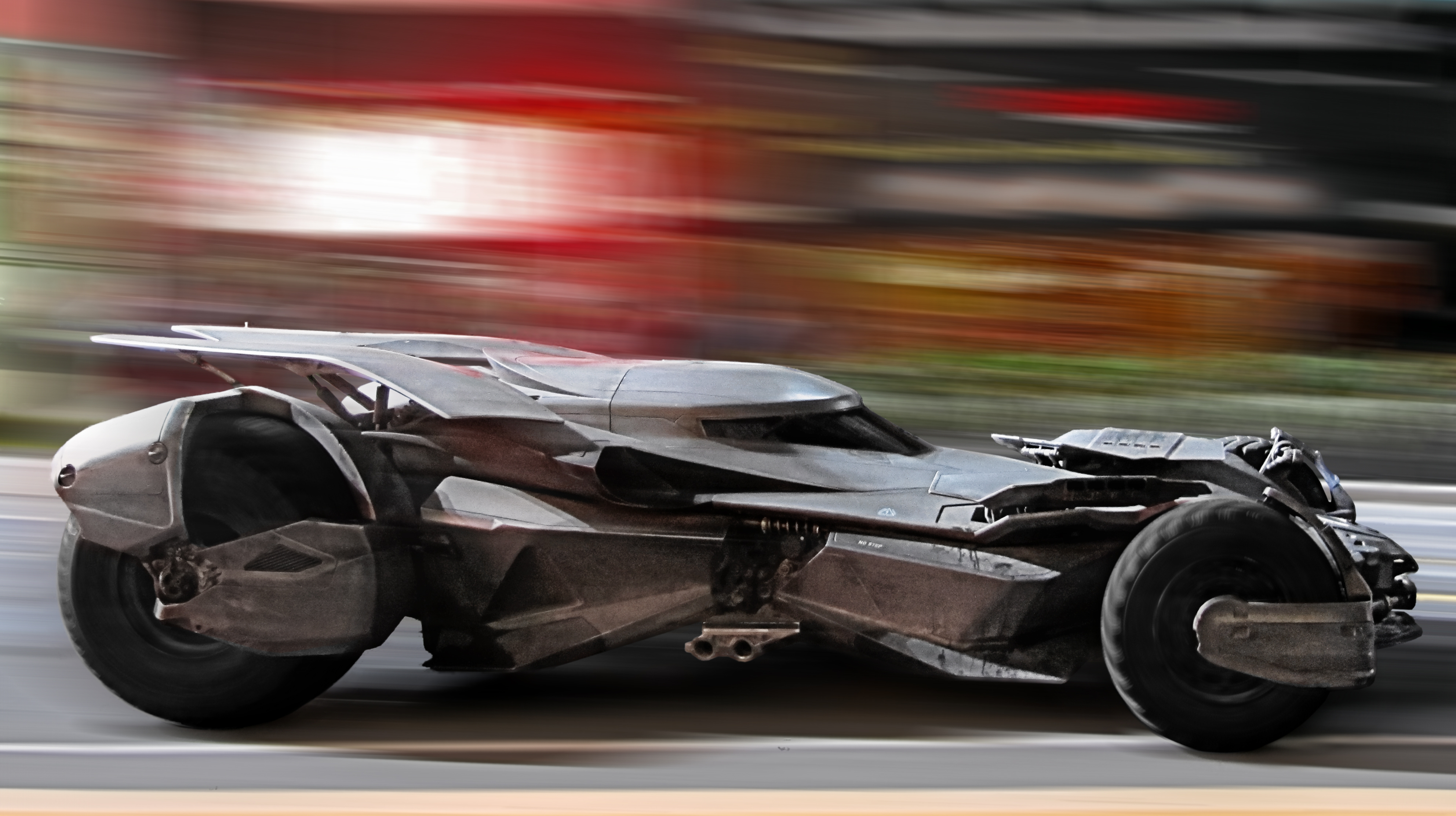 Batmobile on the set of Suicide Squad in Toronto.